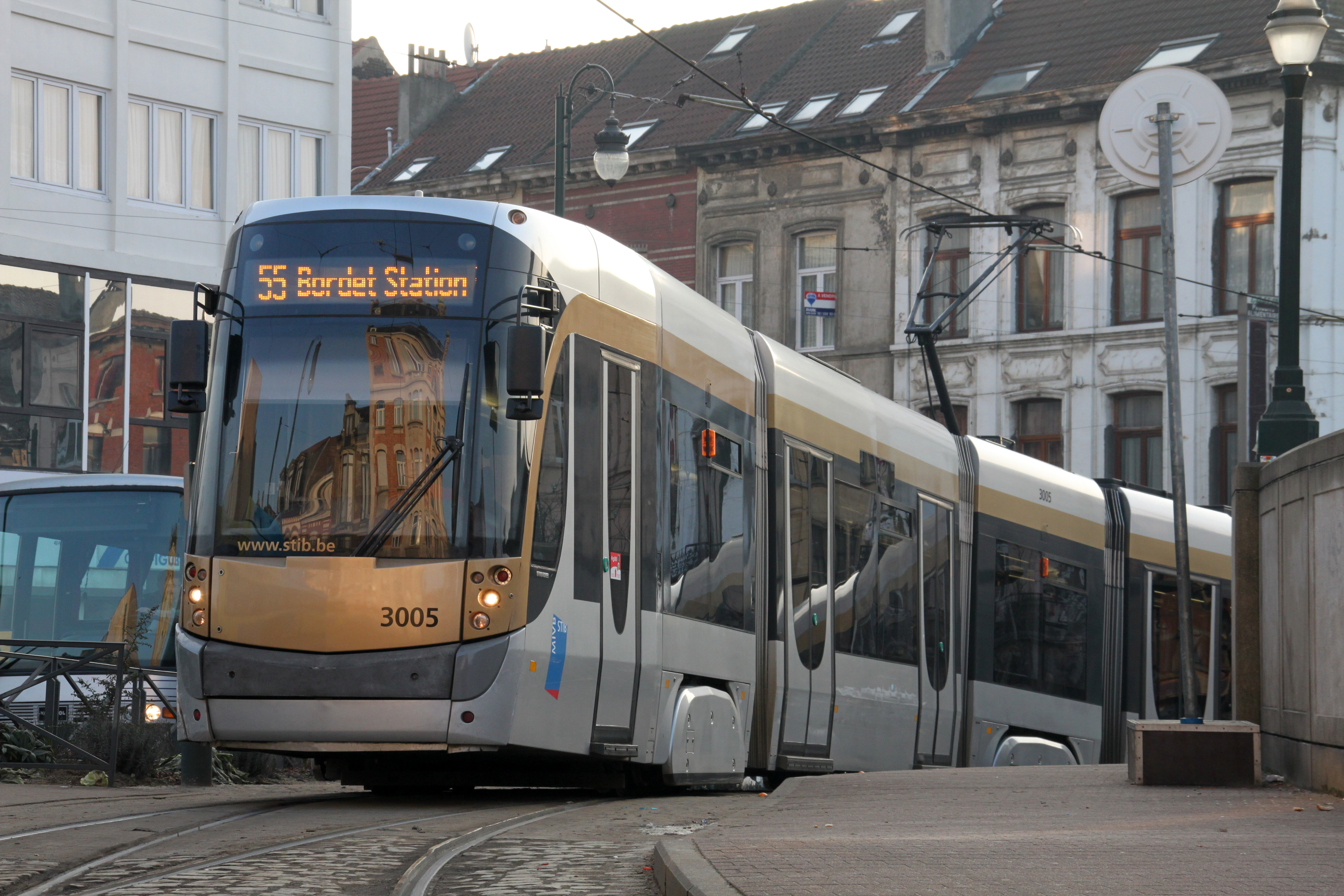 Cityrunner 3005 in Brussel